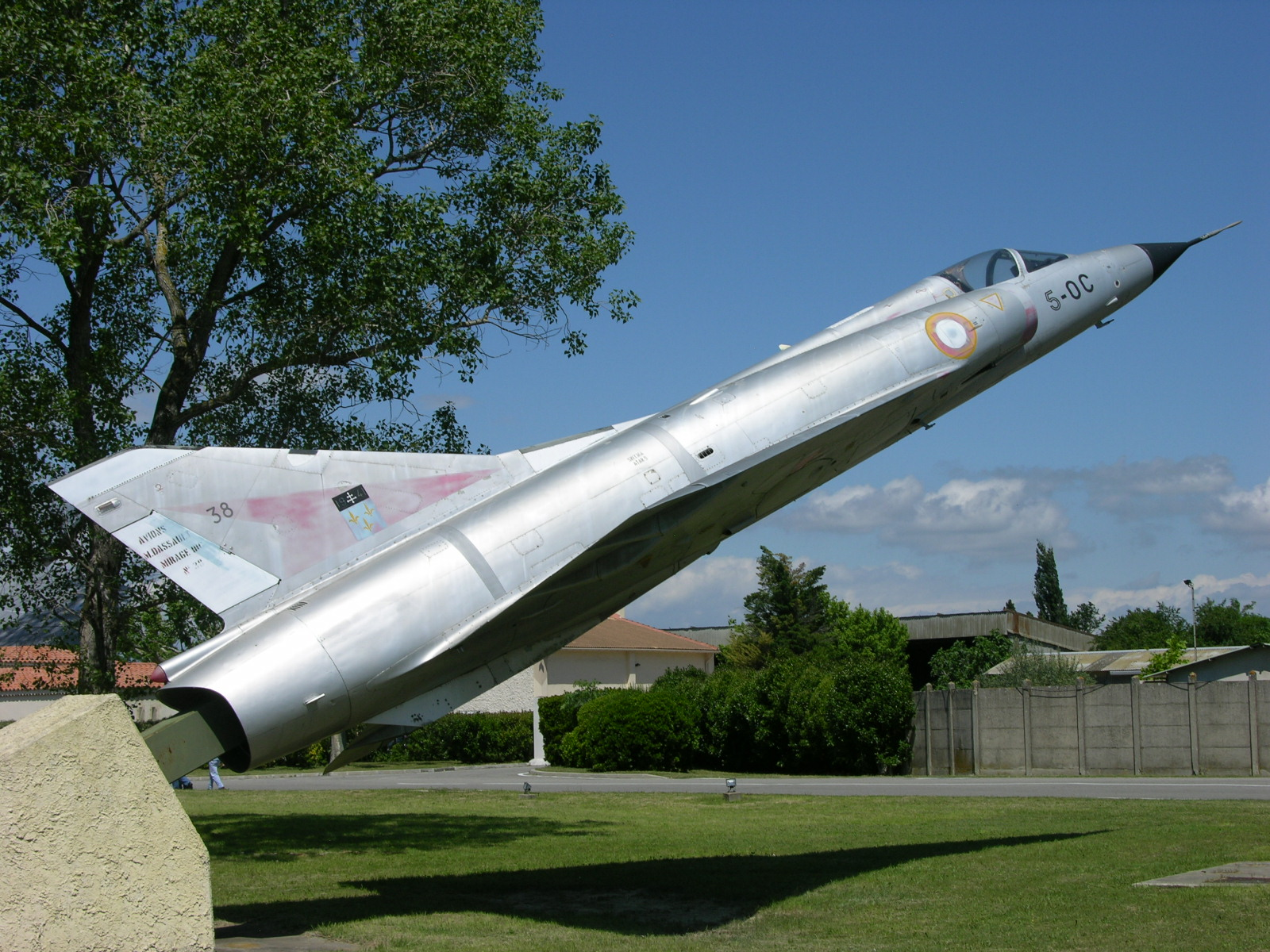 38 / 5-OC Mirage IIIC Orange Air Base open day in May 2008 The classic early sixties Mirage III fighter in the colours of EC 02.005 "Ile de France"